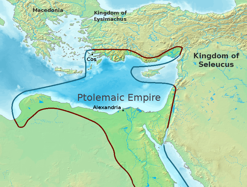 Ptolemaic Empire circa 300 BC, with Alexandria and Cos highlighted